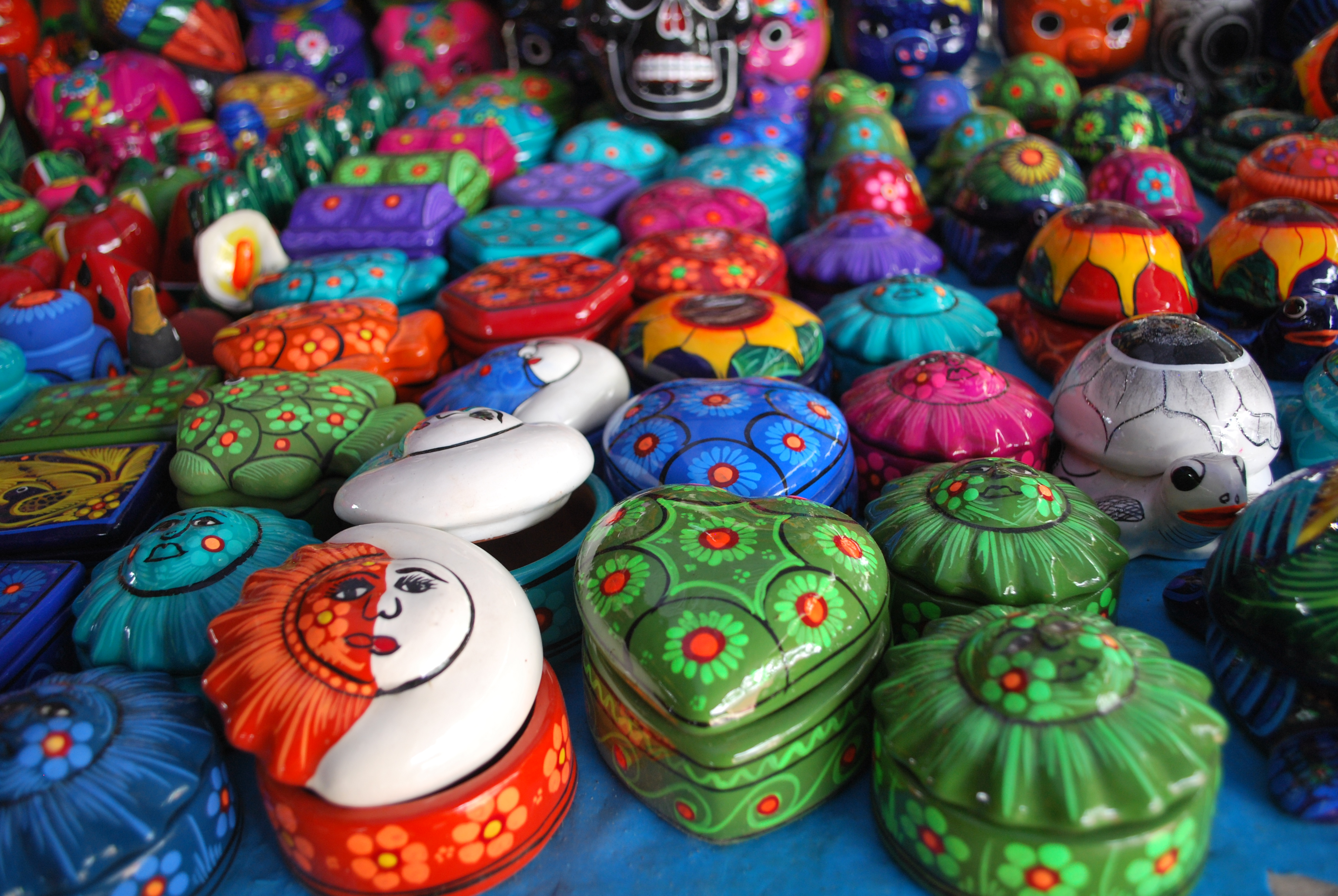 Ceramic objects at a roadside stand in Guerrero, Mexico